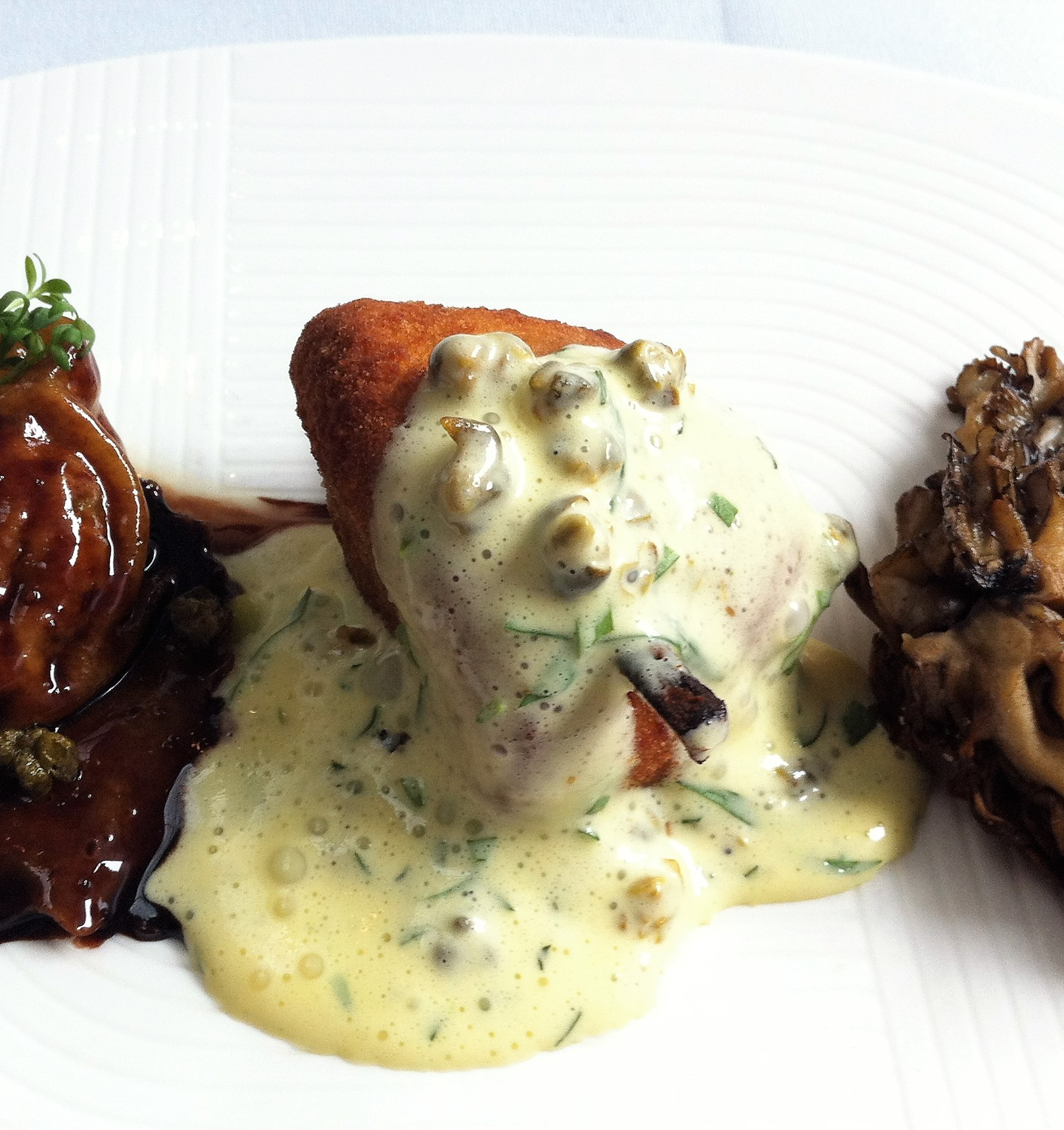 Veal sweetbread and veal tortellini duo, caper-tarragon mousseline, hen of the woods. (The Modern, New York).